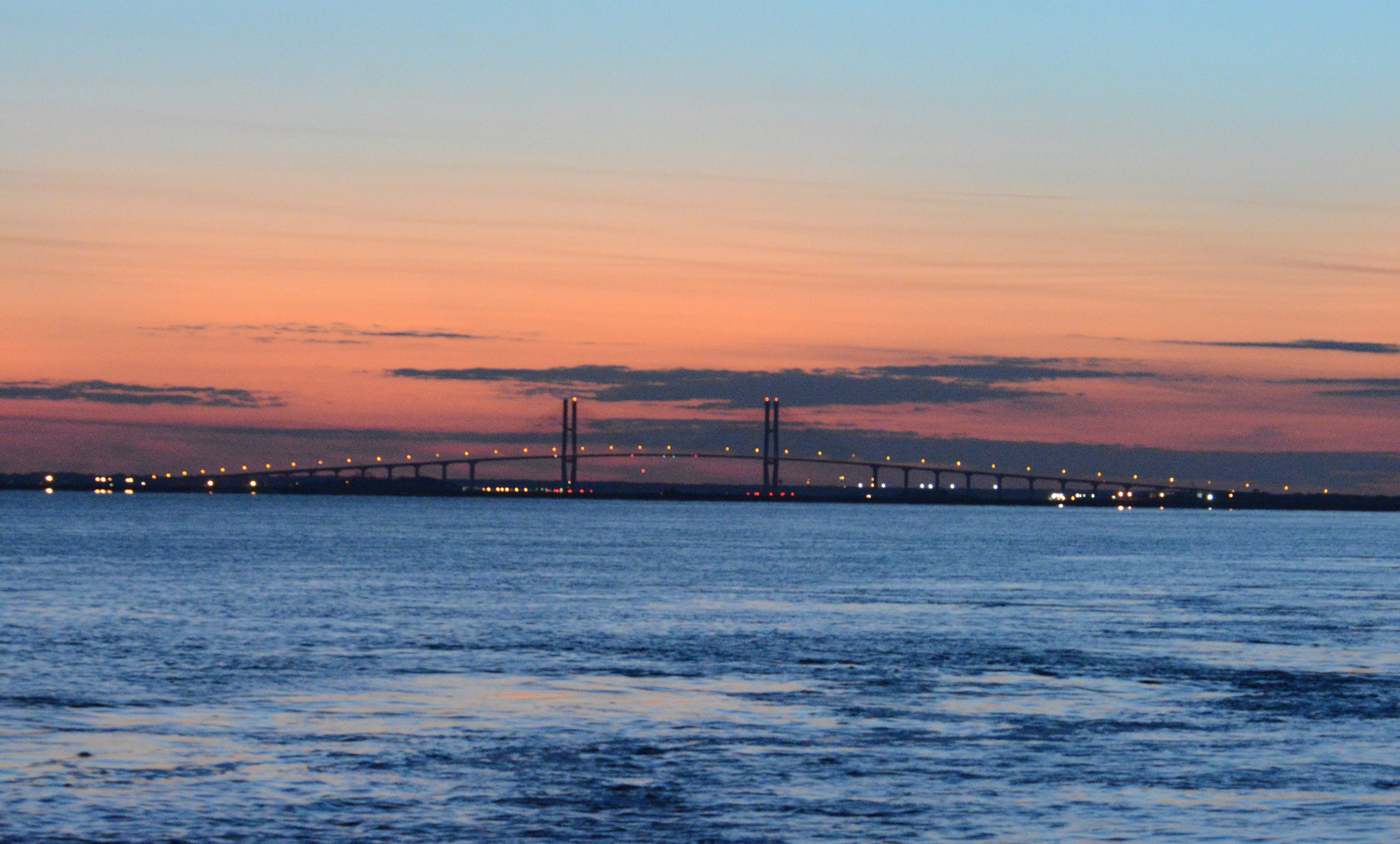 The Sidney Lanier Bridge crossing the Brunswick River, Glynn County, Georgia, USA